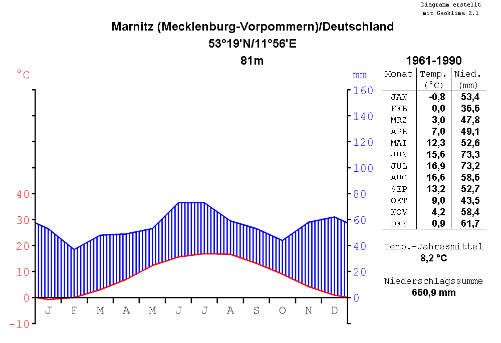 climate chart of Marnitz, Mecklenburg-Western Pomerania, Germany, for the period of time from 1961 to 1990, in the format by Walter and Lieth, metric, °Celsius and millimeters, chart made with Geoklima 2.1, label in German